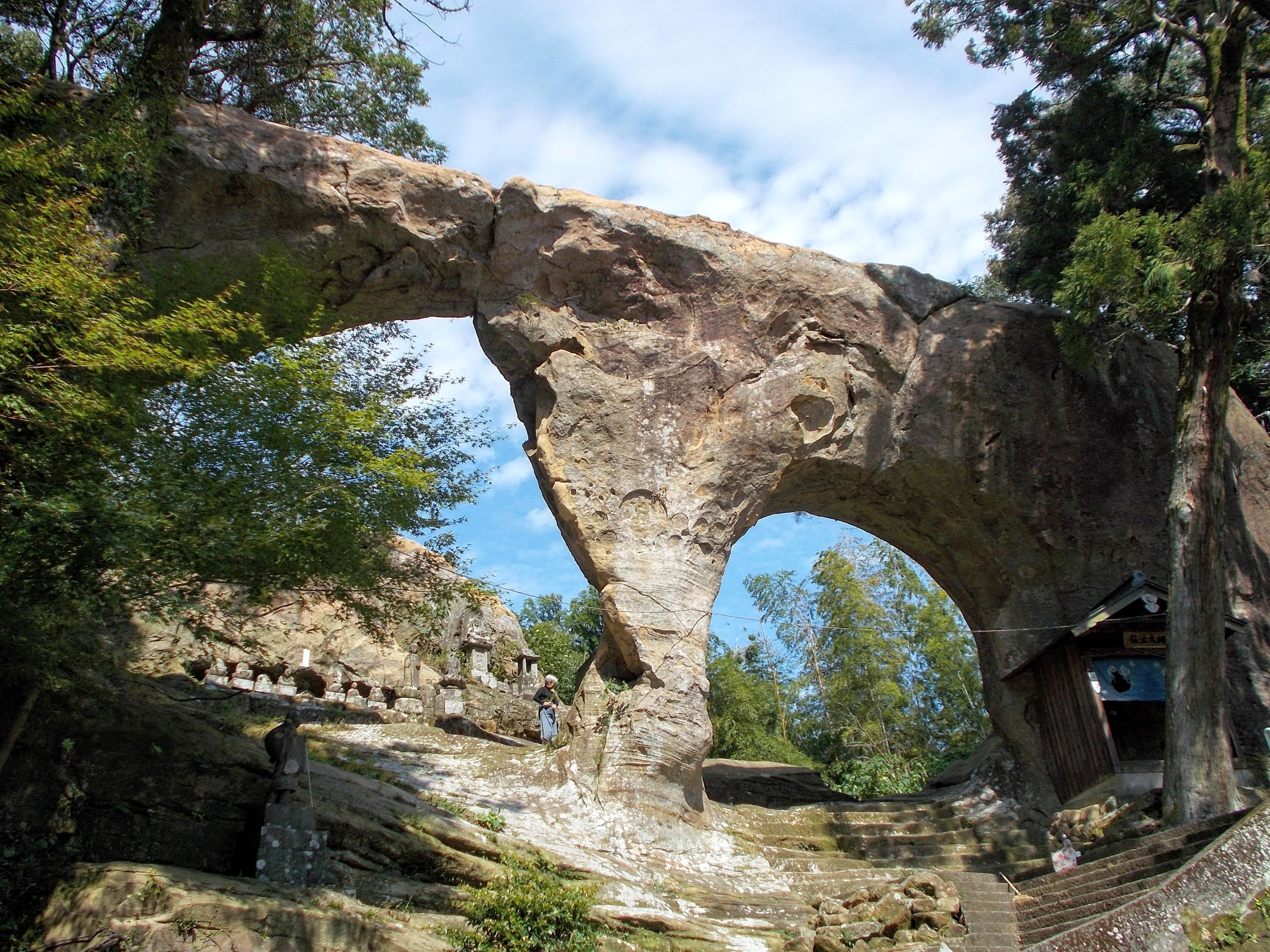 Megane-iwa (Sasebo, Nagasaki) is a natural rock with a hole in both sides.